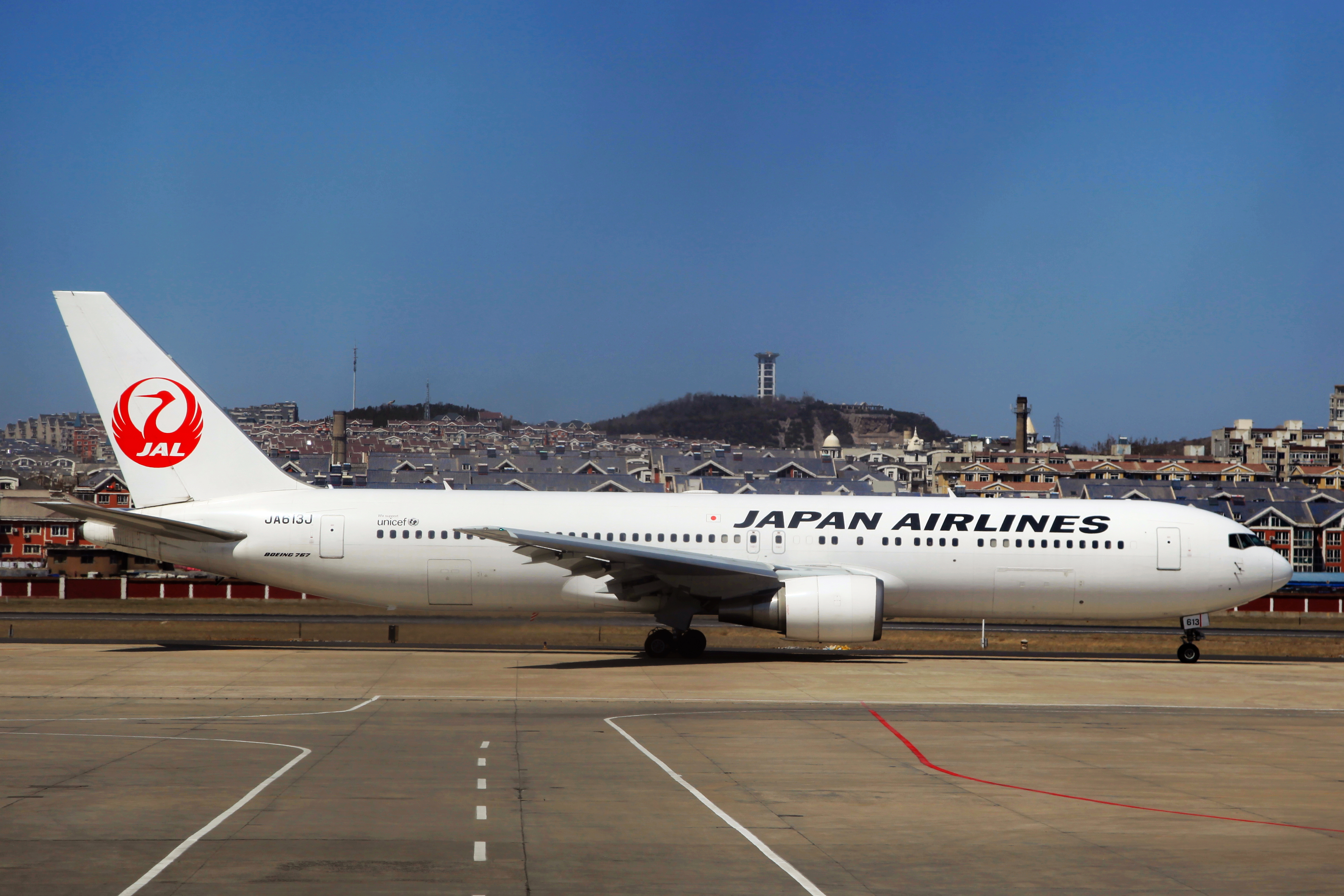 JA613J | Japan Airlines | Boeing 767-346(ER) | Dalian Zhoushuizi International Airport [DLC]